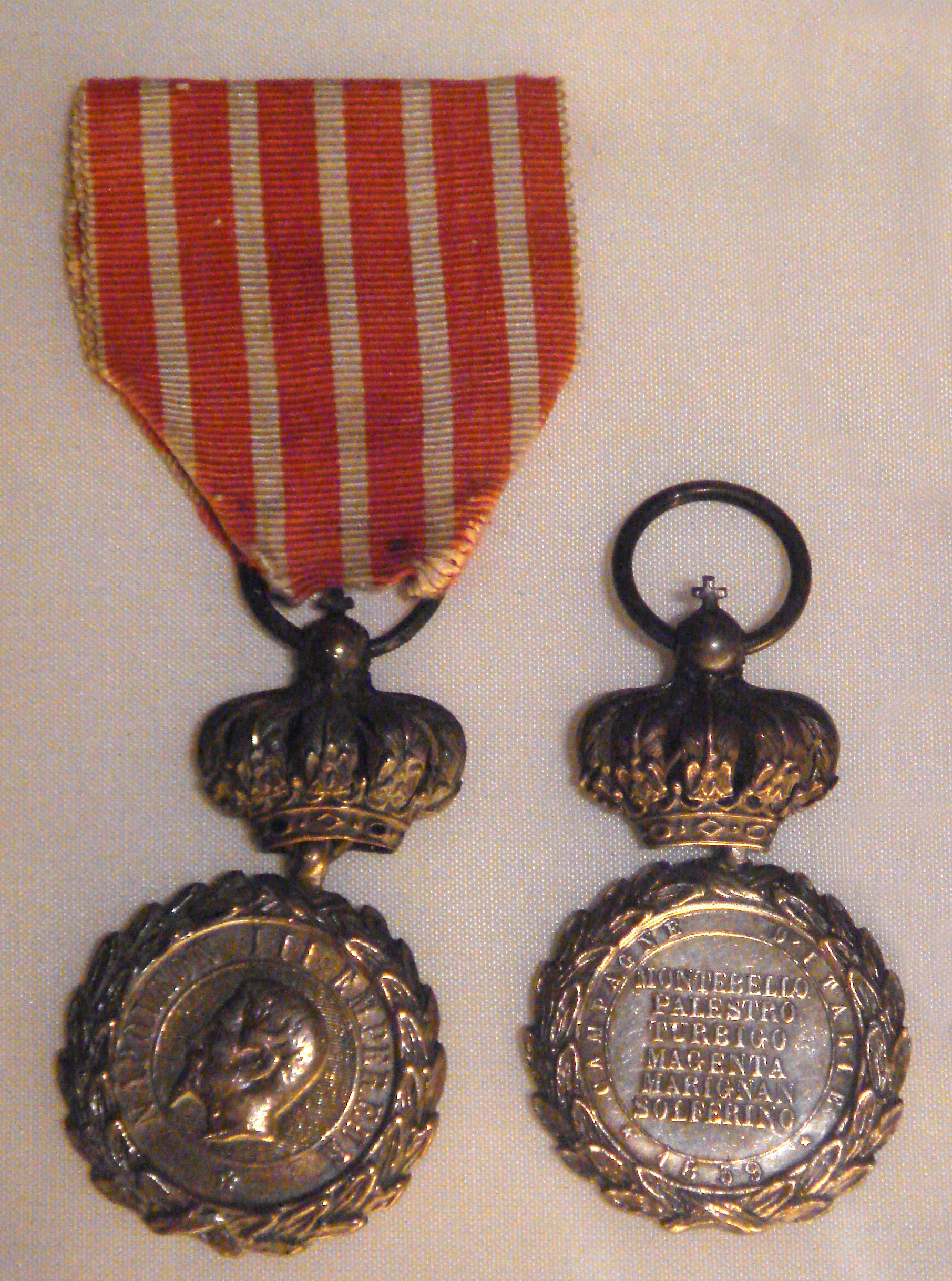 Medaille_Italie_2ieme_type